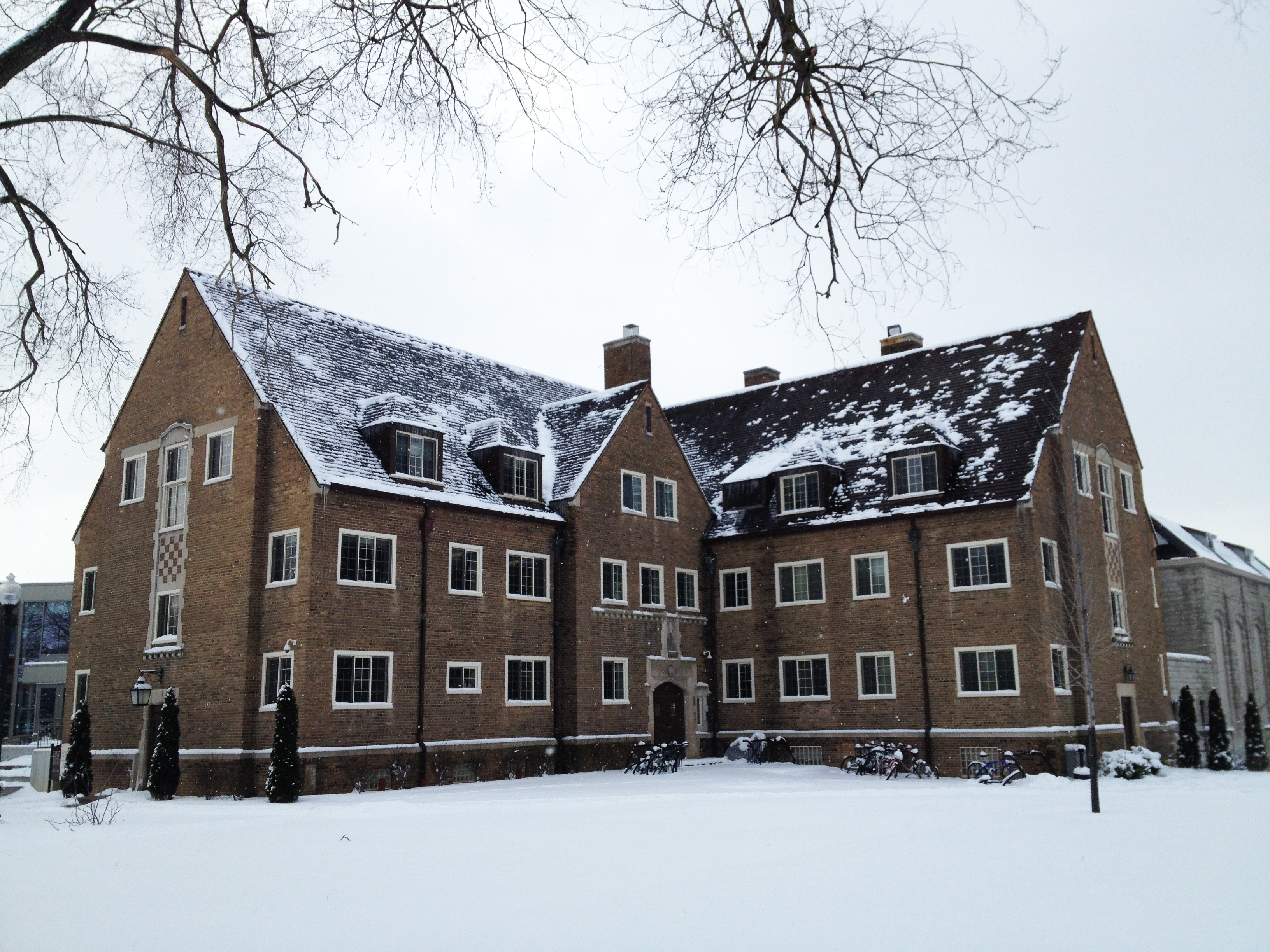 Merner-Pfeiffer Hall on Baldwin Wallace University South Campus